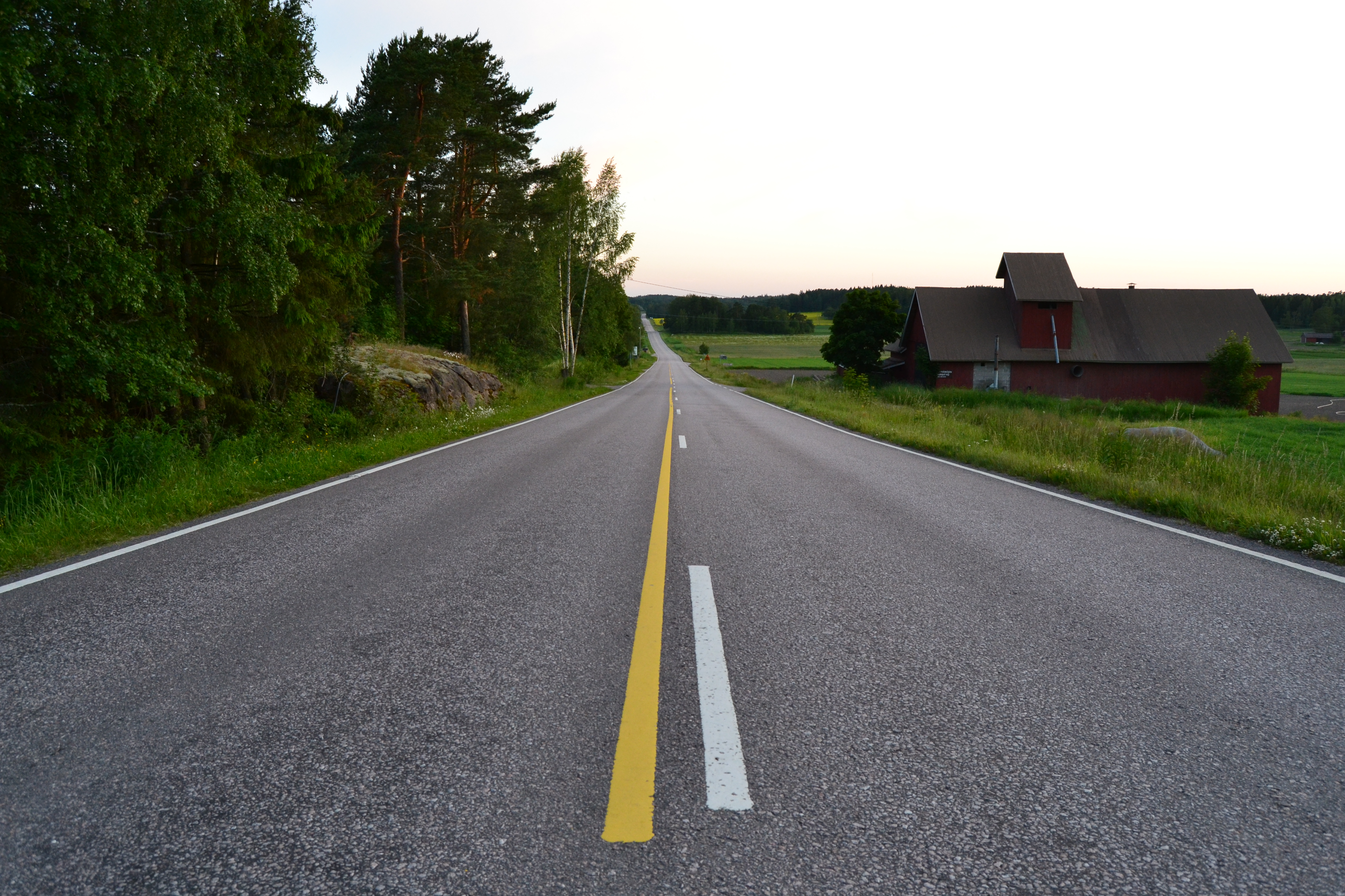 Regional road 180 in Nagu, Pargas, Finland.